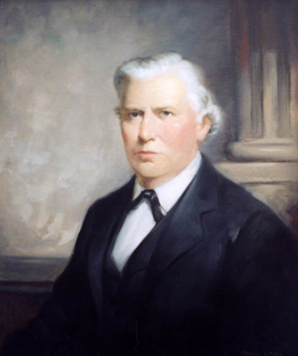 Painted portrait of Florida Supreme Court Justice Leslie A. Thompson. Born on October 8, 1806. He served as Florida Supreme Court Justice January 1, 1851-1853. Leslie A. Thompson died in January 1874.